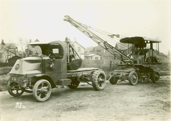 Universal Crane Company, Jud Griffith Collection, HCEA Archives photo This Universal crane is truly “wagon” mounted. The venerable Mack AC truck provides the tow.